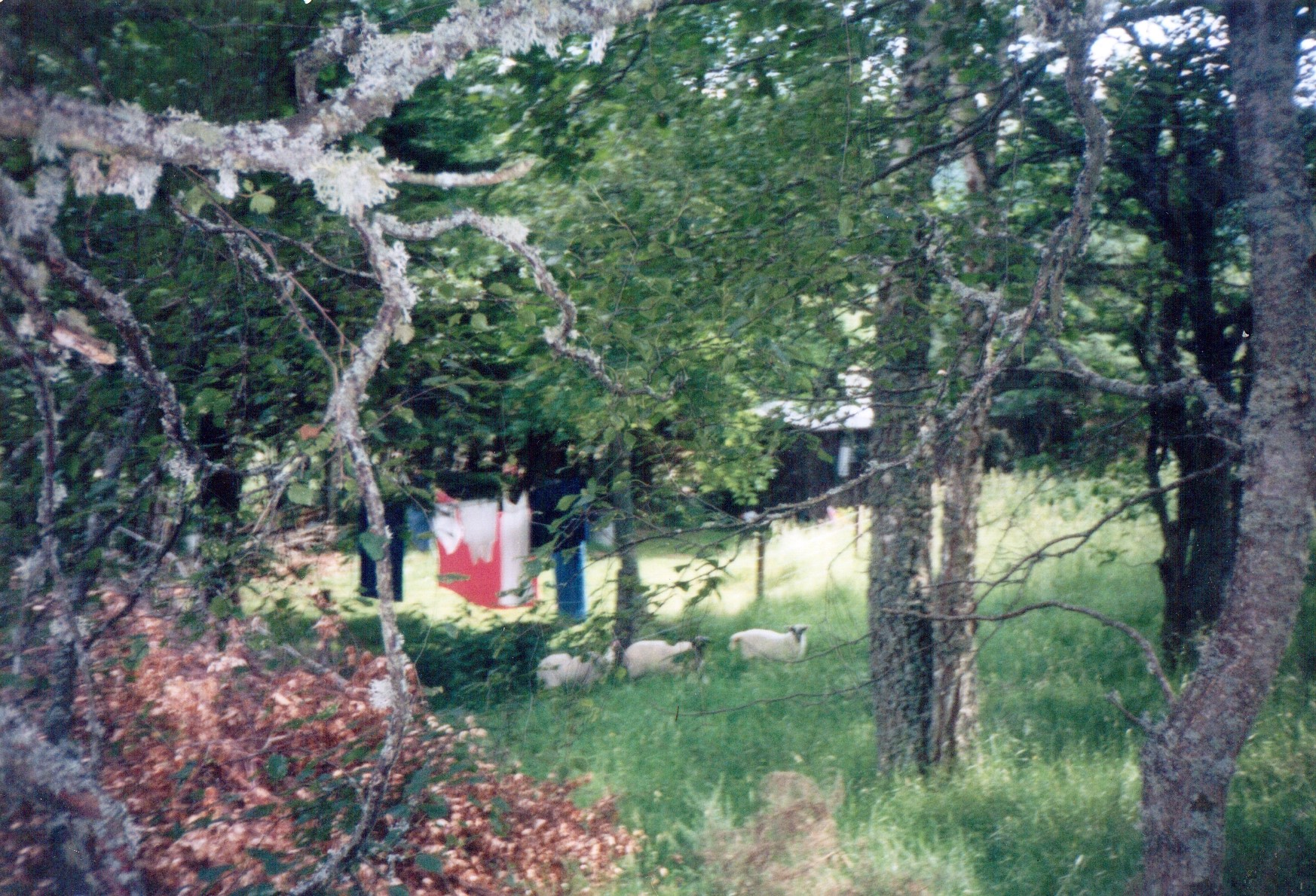 A farm in Strathnacrow, Highland